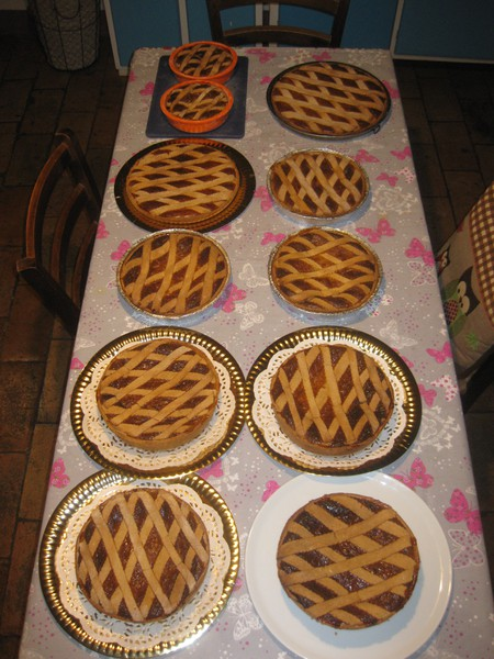 Pastiere prepared for Easter 2016